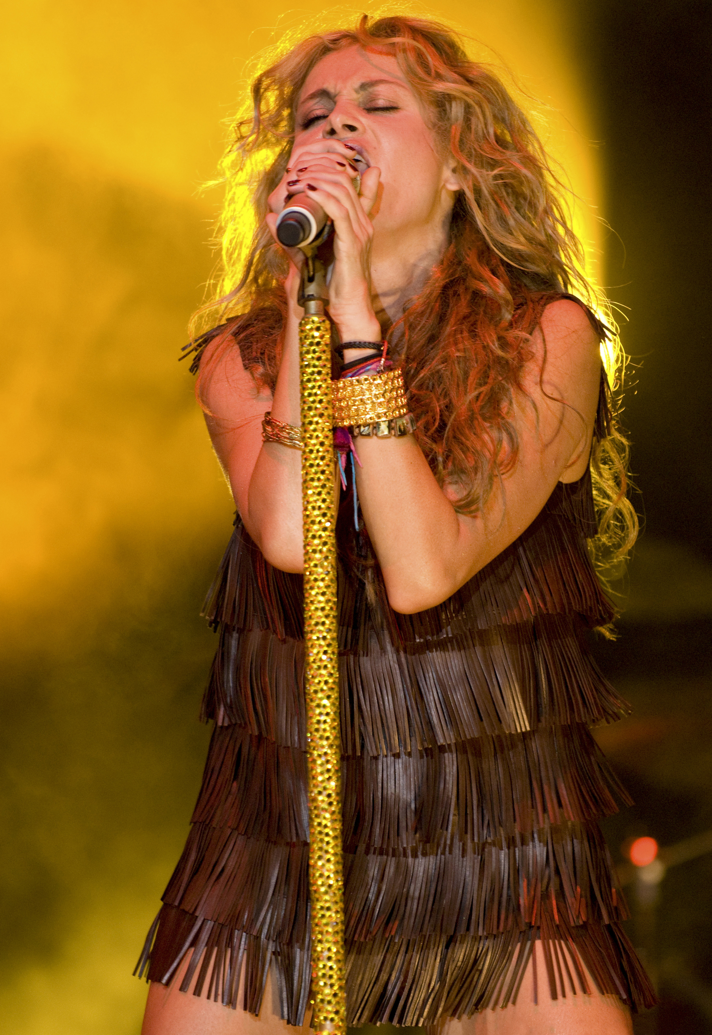 Paulina Rubio. Performing a live concert in the Asics Music Festival, Barcelona, October 2007.